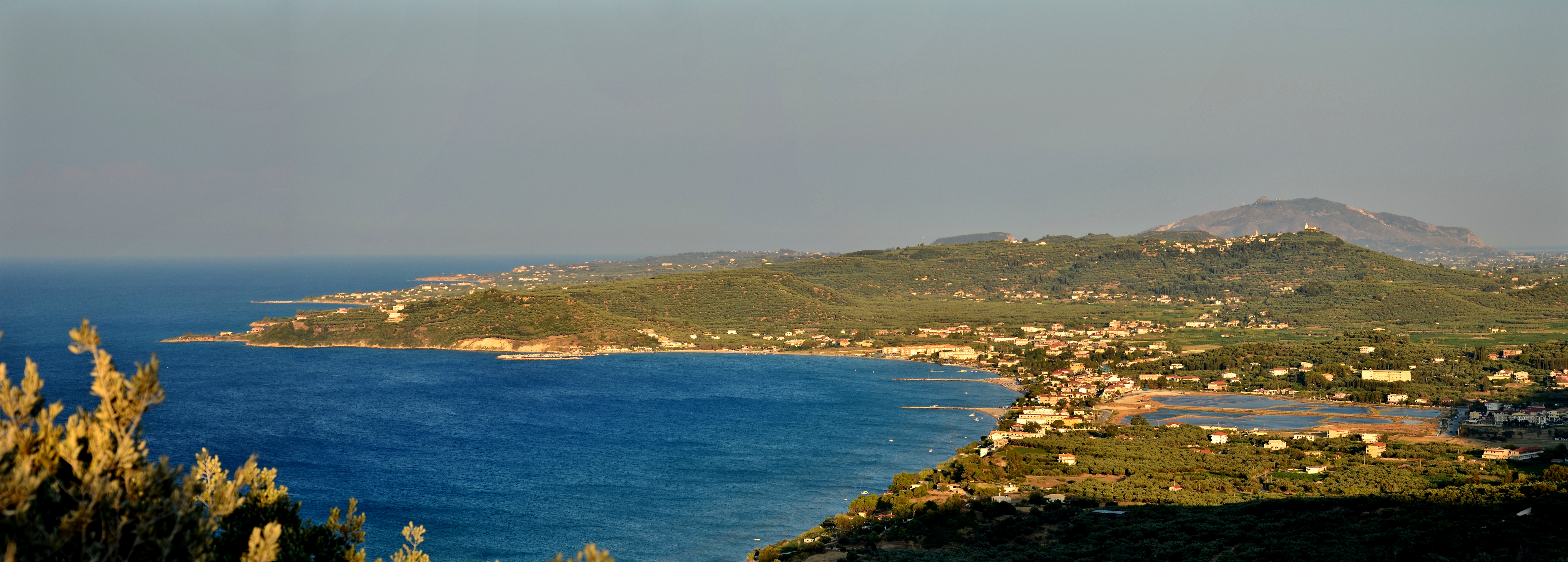 Zakynthos. Alikanas and Alikes (Salines)